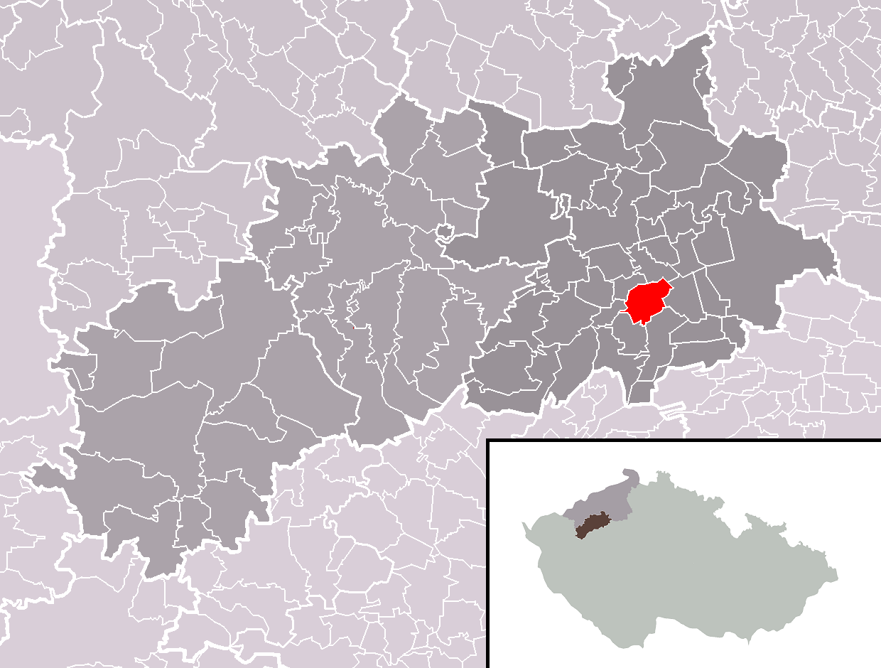 Location of Smolnice municipality within Louny District and administrative area of Louny as a Municipality with Extended Competence.